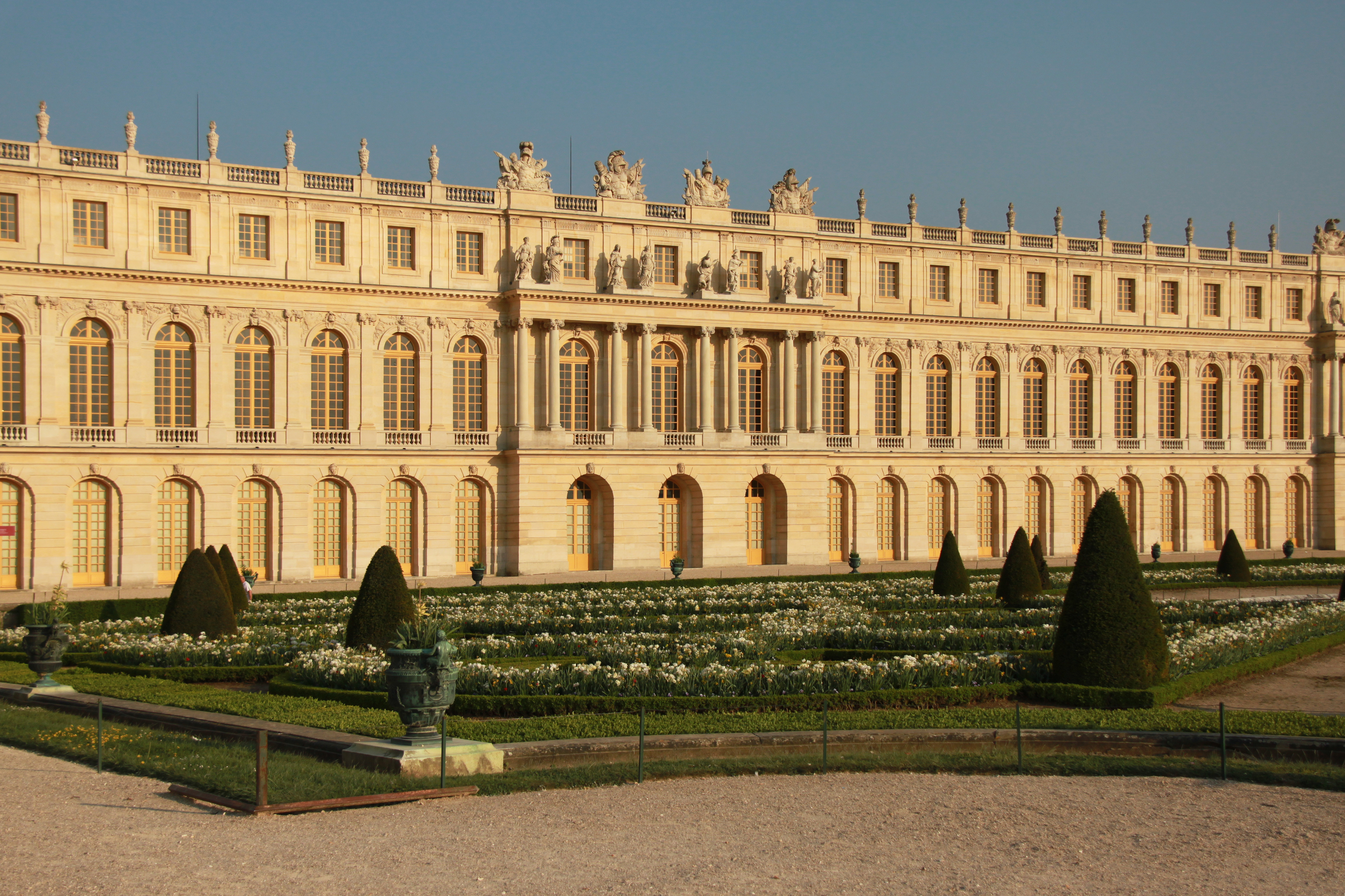 Garden facade of the Palace of Versailles